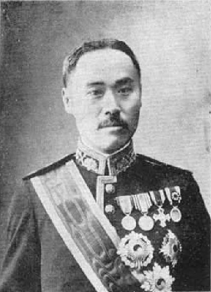 Lee Wan-yong Portrait